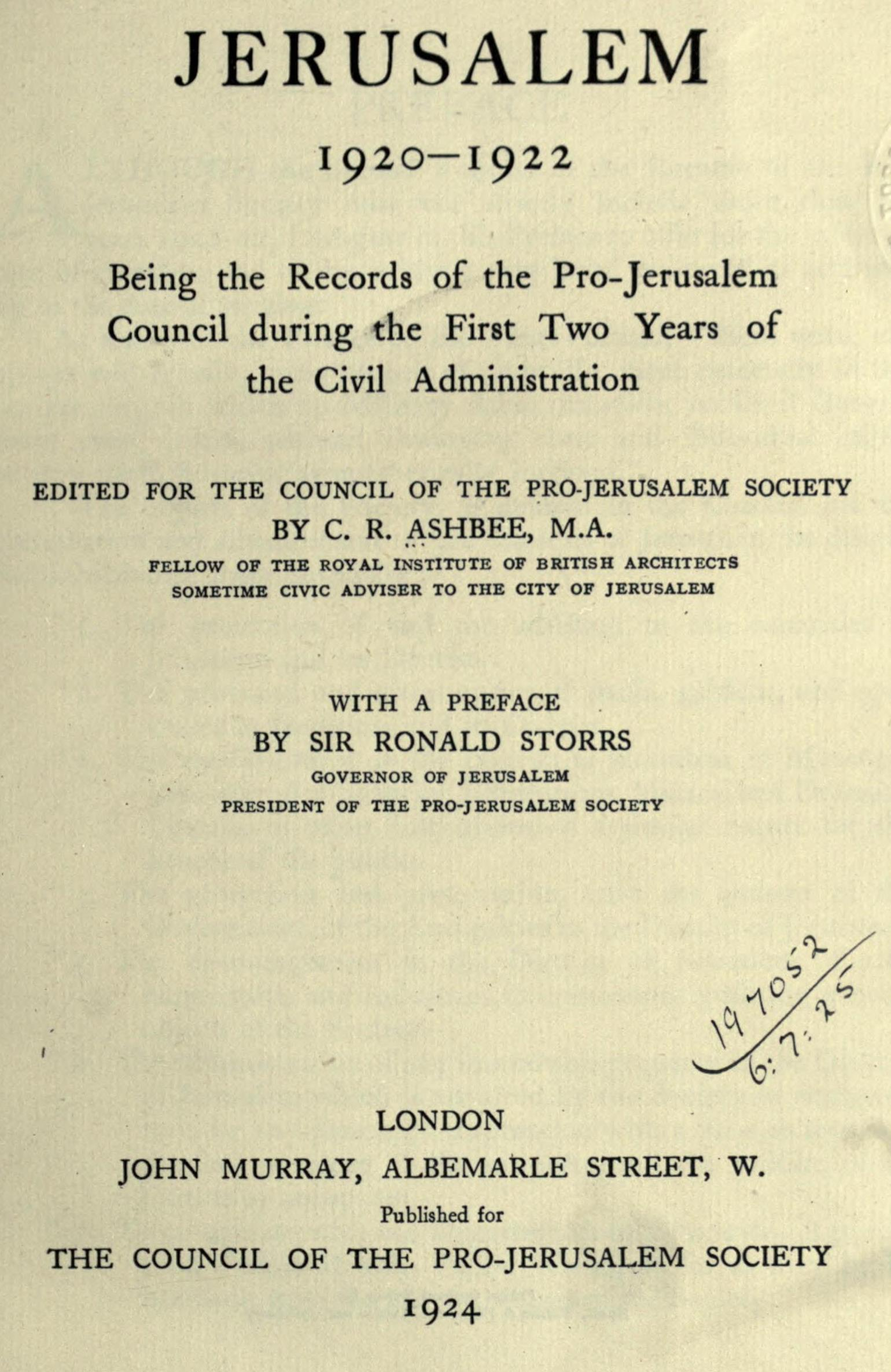 C.R. Ashbee, Jerusalem 1920-1922 - book cover.